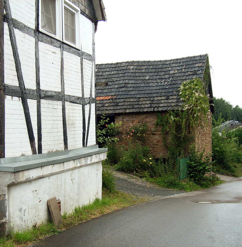 view of Schneppsiefen, district of Gummersbach, North-Rhine Westphalia, Germany